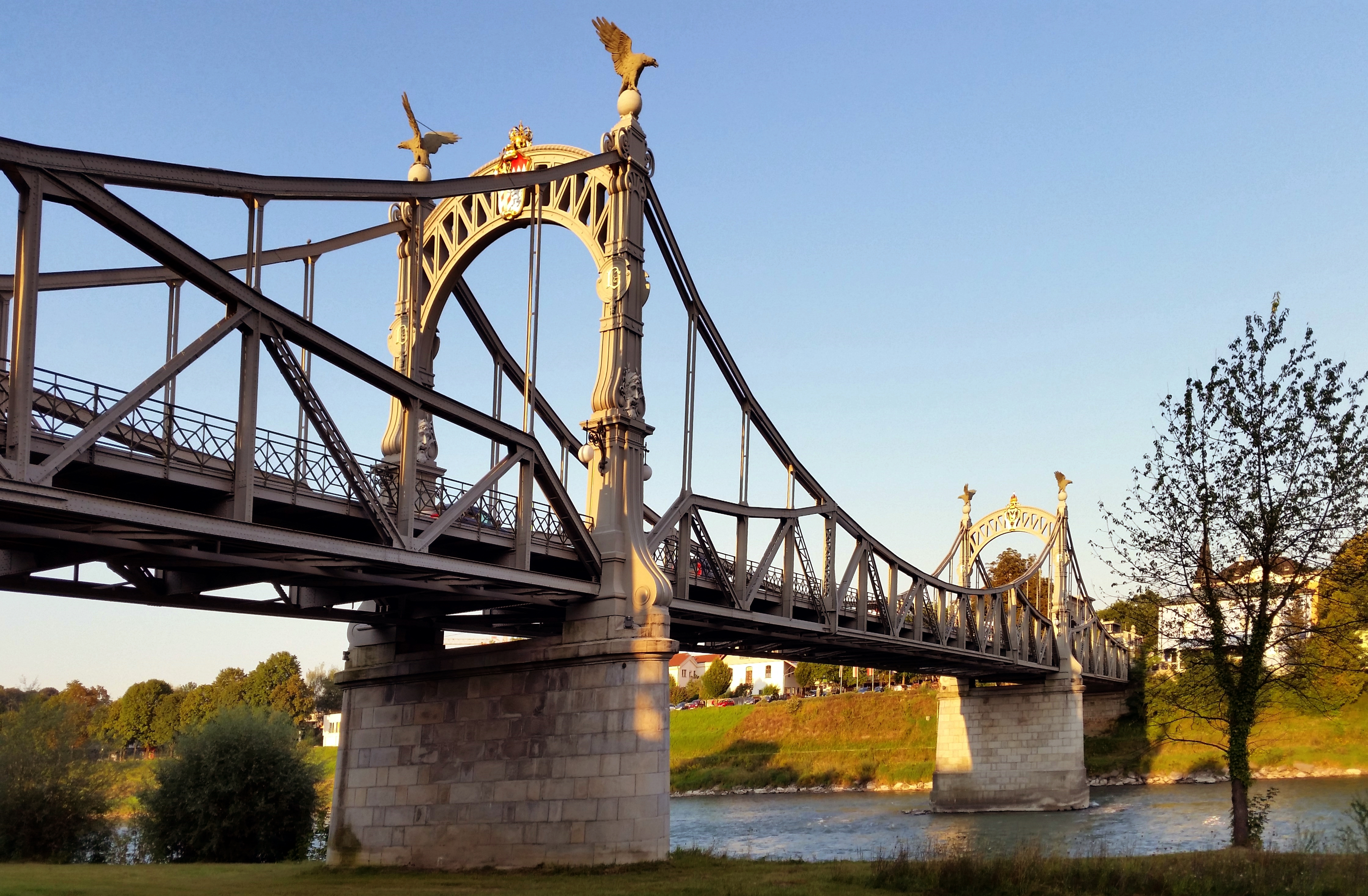 This is a photograph of an architectural monument.